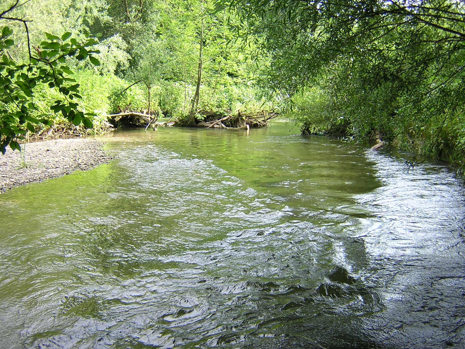 River Paar at Friedberg-Ottmaring, Germany 48°19'40.71" N 10°59'55.86" E